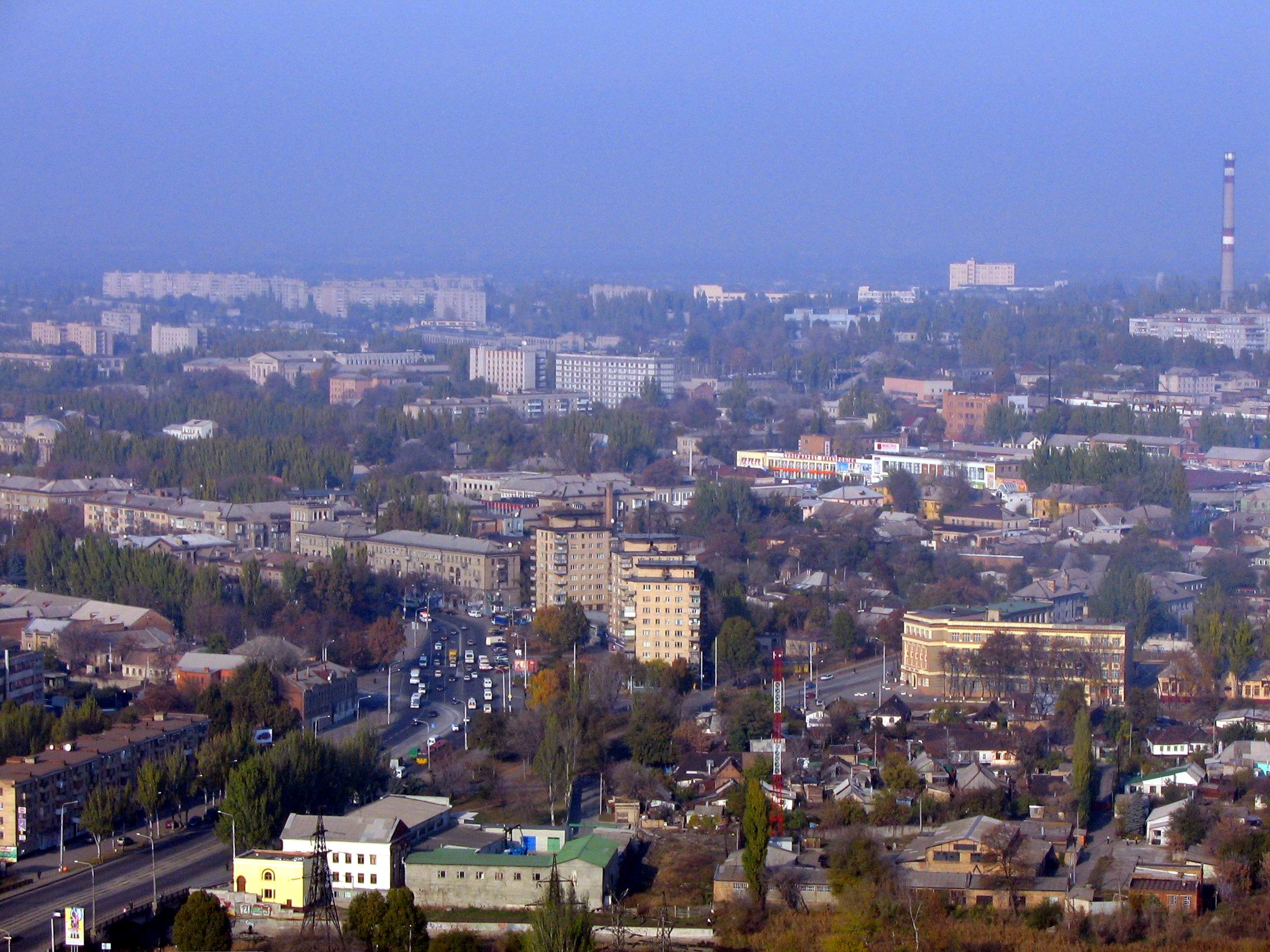 Zaporizhia